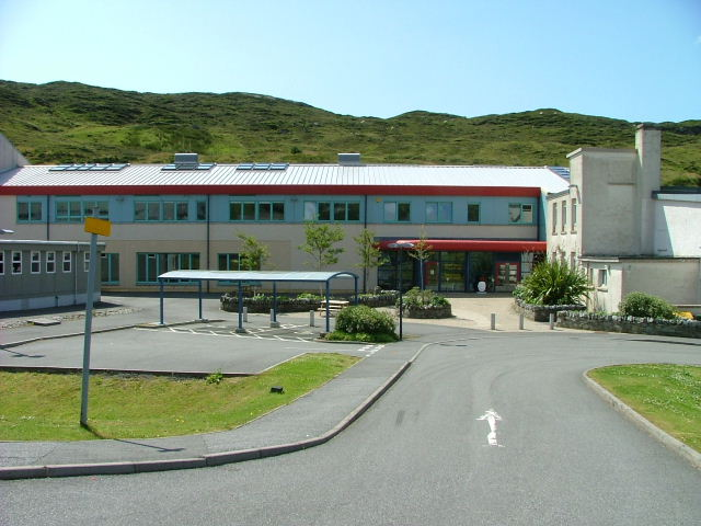 Sir Edward Scott Secondary School, near to Tarbert/An Tairbeart, Na h-Eileanan an Iar, Great Britain. This is the only secondary school on Harris, the nearest being in Stornoway on the island of Lewis. The age range of the pupils is from 4 to 18 years.